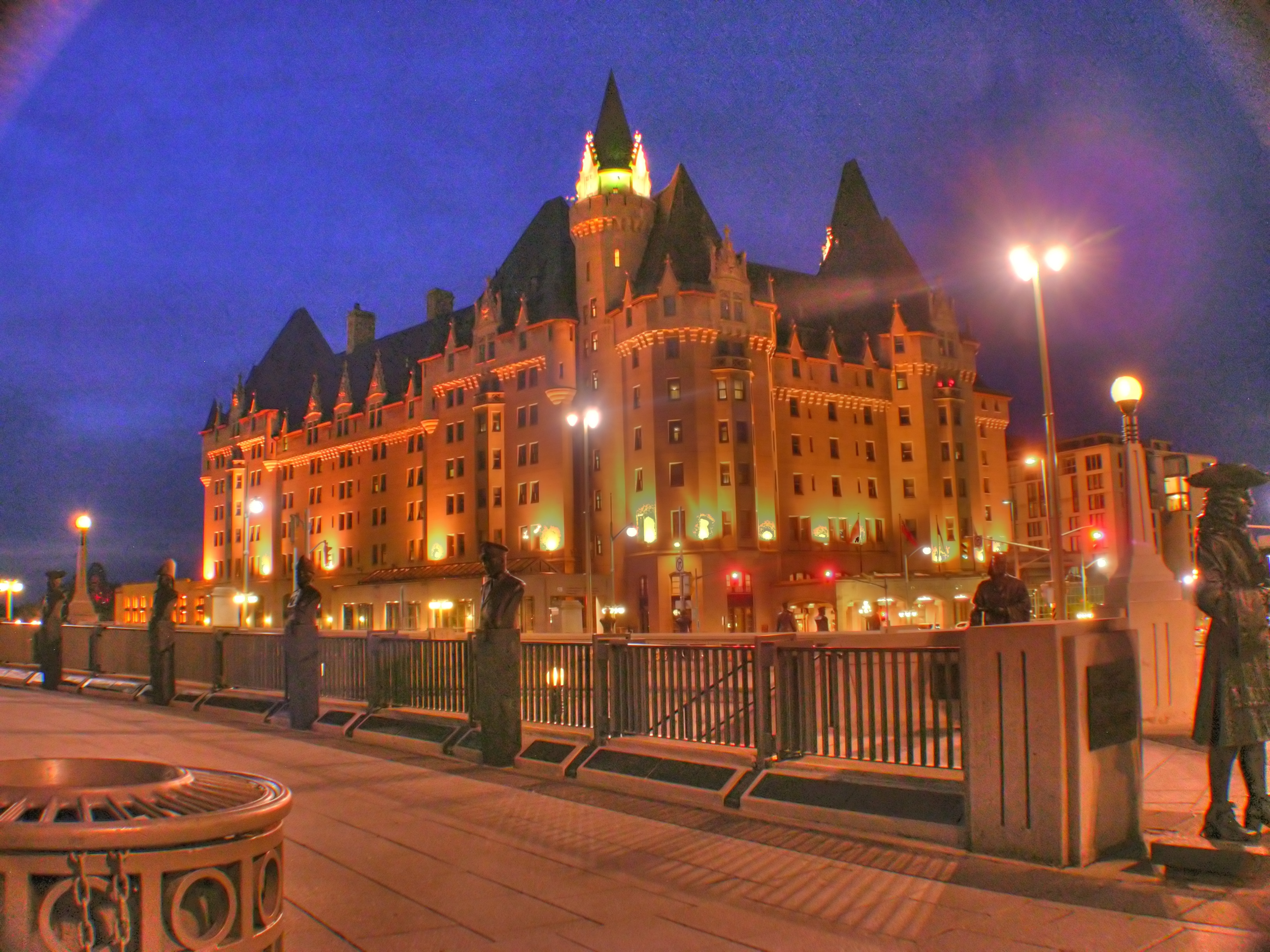 Chateau Laurier (HDR). Ottawa, Ontario, Canada.